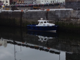 The Douglas Pilot Launch Girl Mary, pictured at the Double Corner, Douglas, Isle of Man.